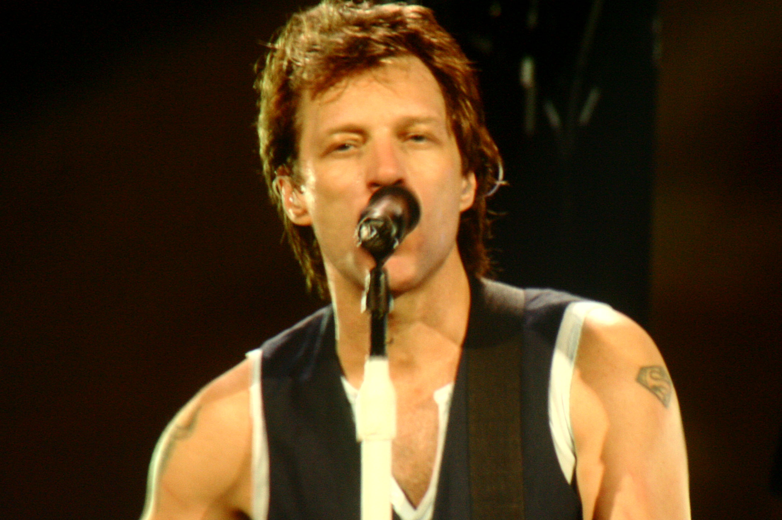 Jon Bon Jovi